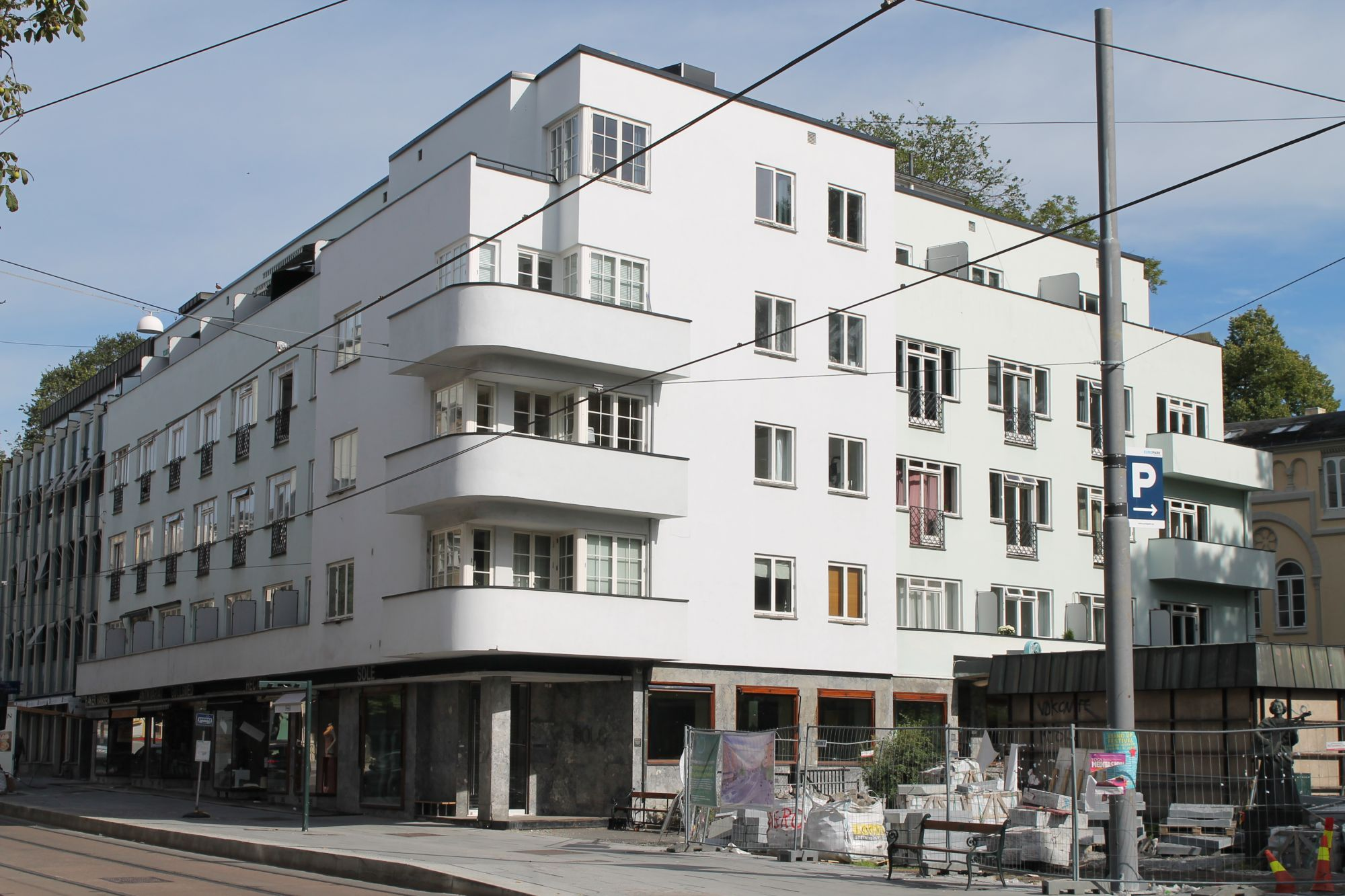 Oscars gate 19 in Oslo, Norway